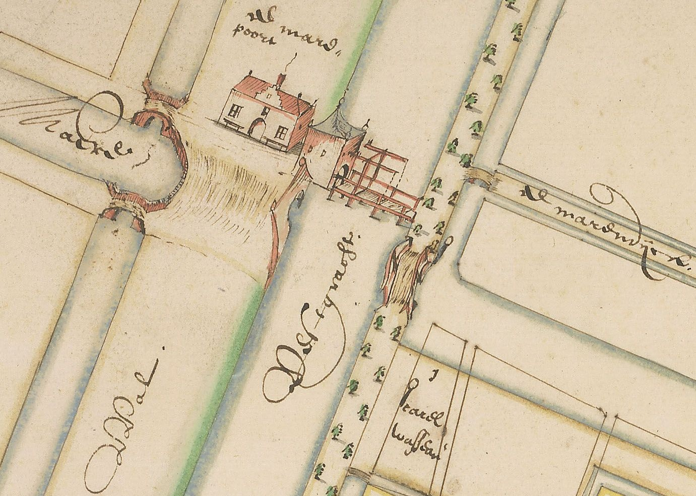 Detail of the map of the canal Leiden-Haarlem (Haarlemmertrekvaart) drawn by Andries van der Walle and Joris Gerstecoren in 1656. This detail shows the startpoint of the canal in Leiden with the Marepoort city gate. North is to the right.